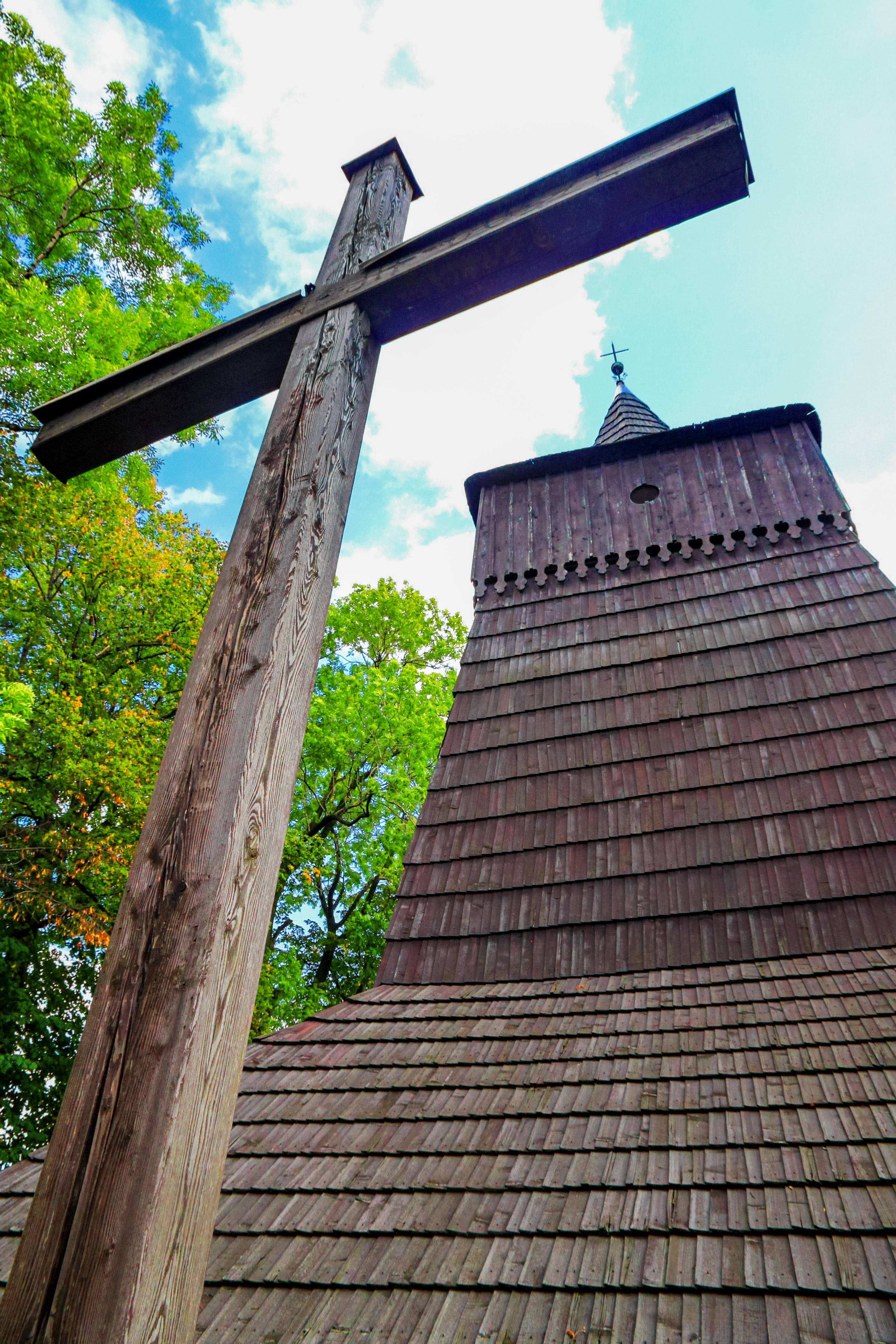 St. Roch church. Zamarski, Silesian Voivodeship, Poland.